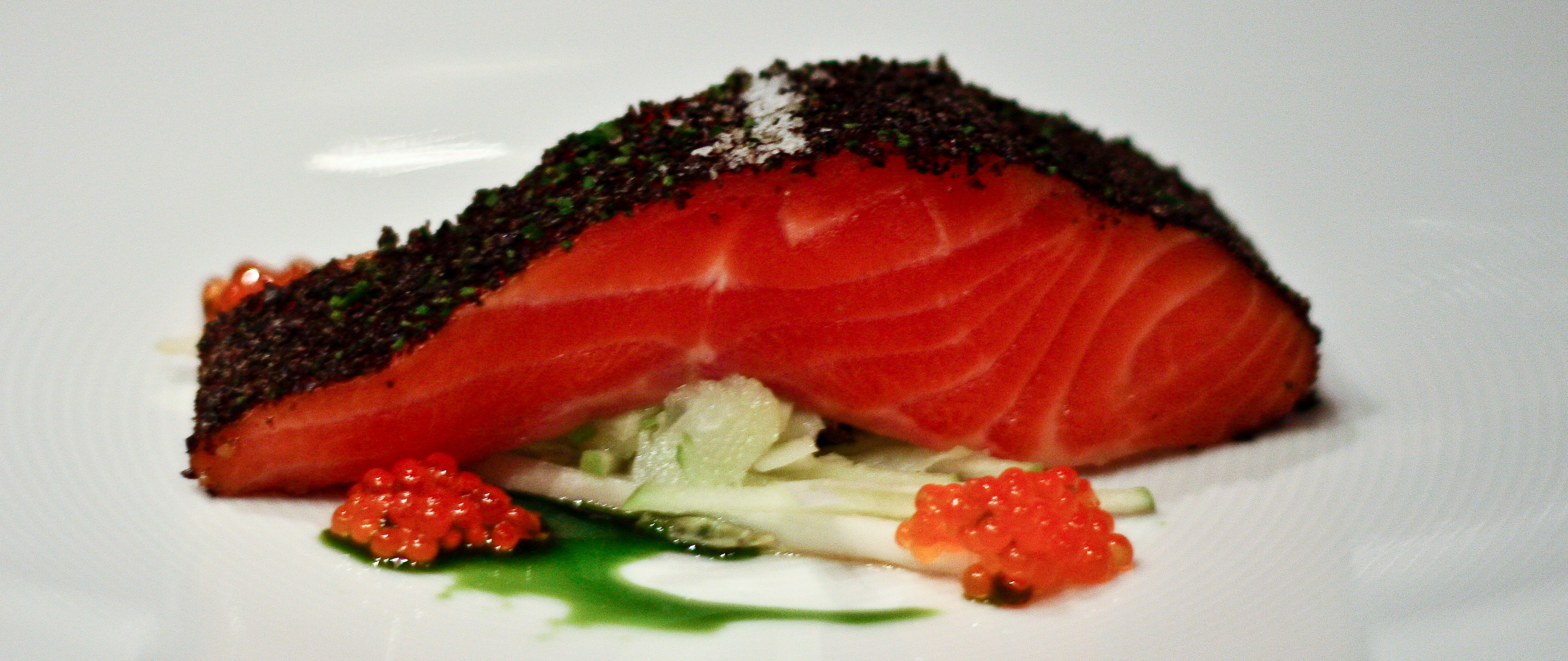 Confit of Petuna Tasmanian Ocean Trout with Konbu, Apple, Fennel and Witlof at Tetsuya's Restaurant in Sydney